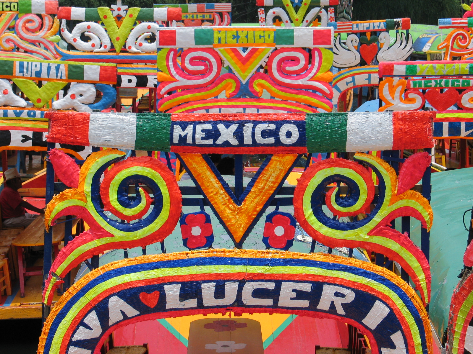 Colorful boats in Lake Xochimilco, Mexico